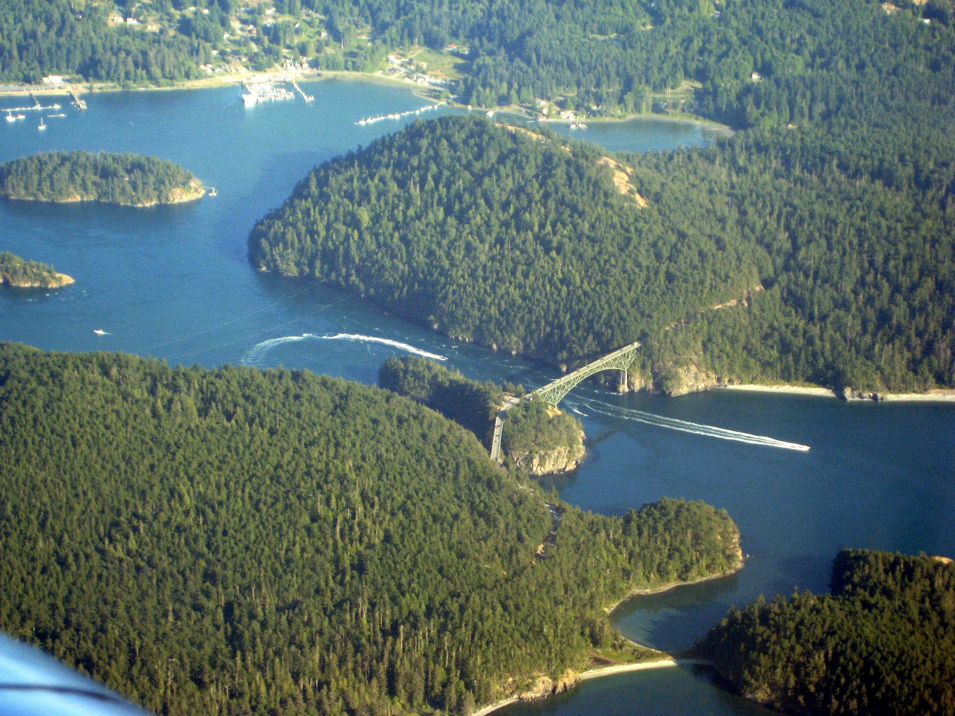 Deception Pass Bridge; Goose Rock (behind bridge); Ben Ure Island (upper left); view direction: southeast, i072508 273